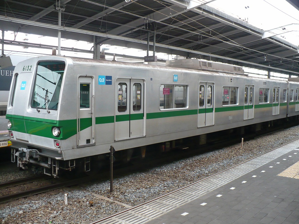 Tokyo Metro 6000 series EMU set 6132 on a Chiyoda Line subway working